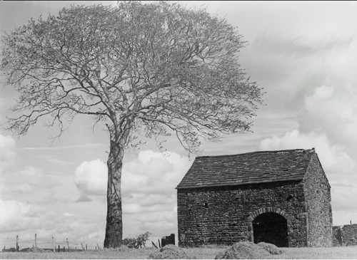 Boaredge barn is the oldest building in Bircle dating back to 1560 on the top of Gallows hill